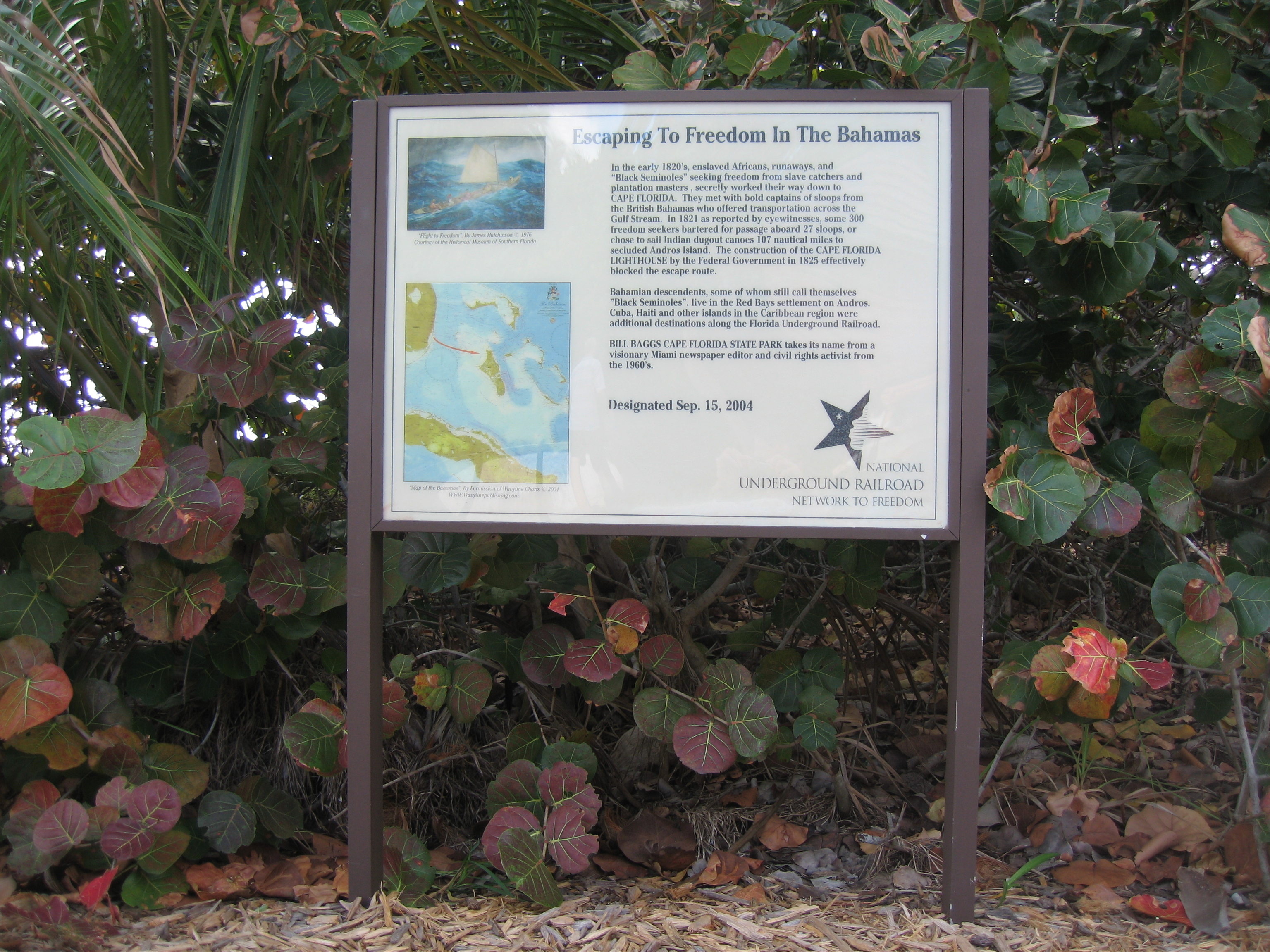 Sign at Bill Baggs Cape Florida State Park near the Cape Florida Lighthouse, Key Biscayne, Florida.